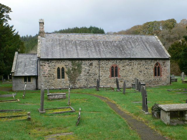 St Mary's Church, Cyffylliog Near the river Clywedog.